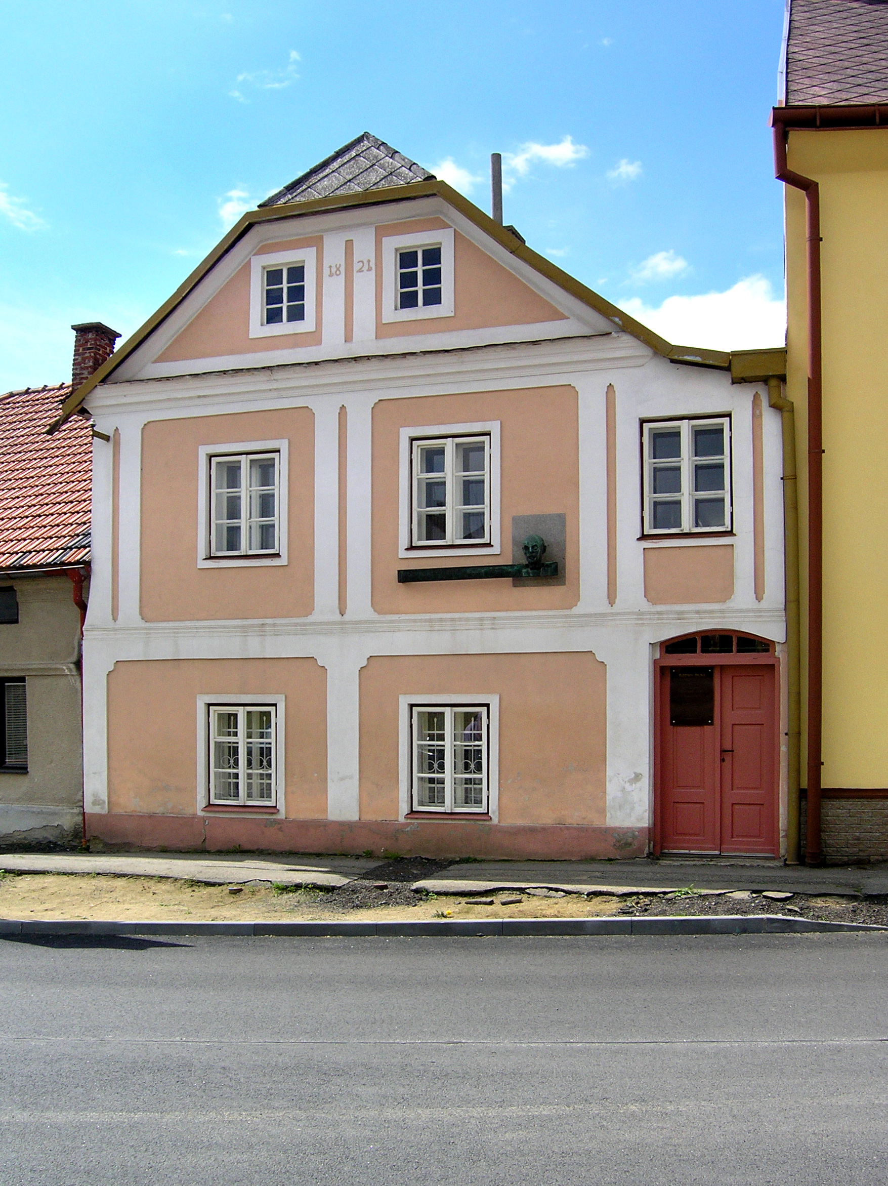 Birth house of Otokar Březina in Počátky, Czech Republic